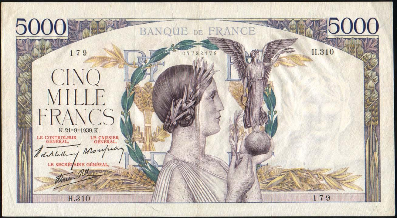 France 5000 Francs-1939